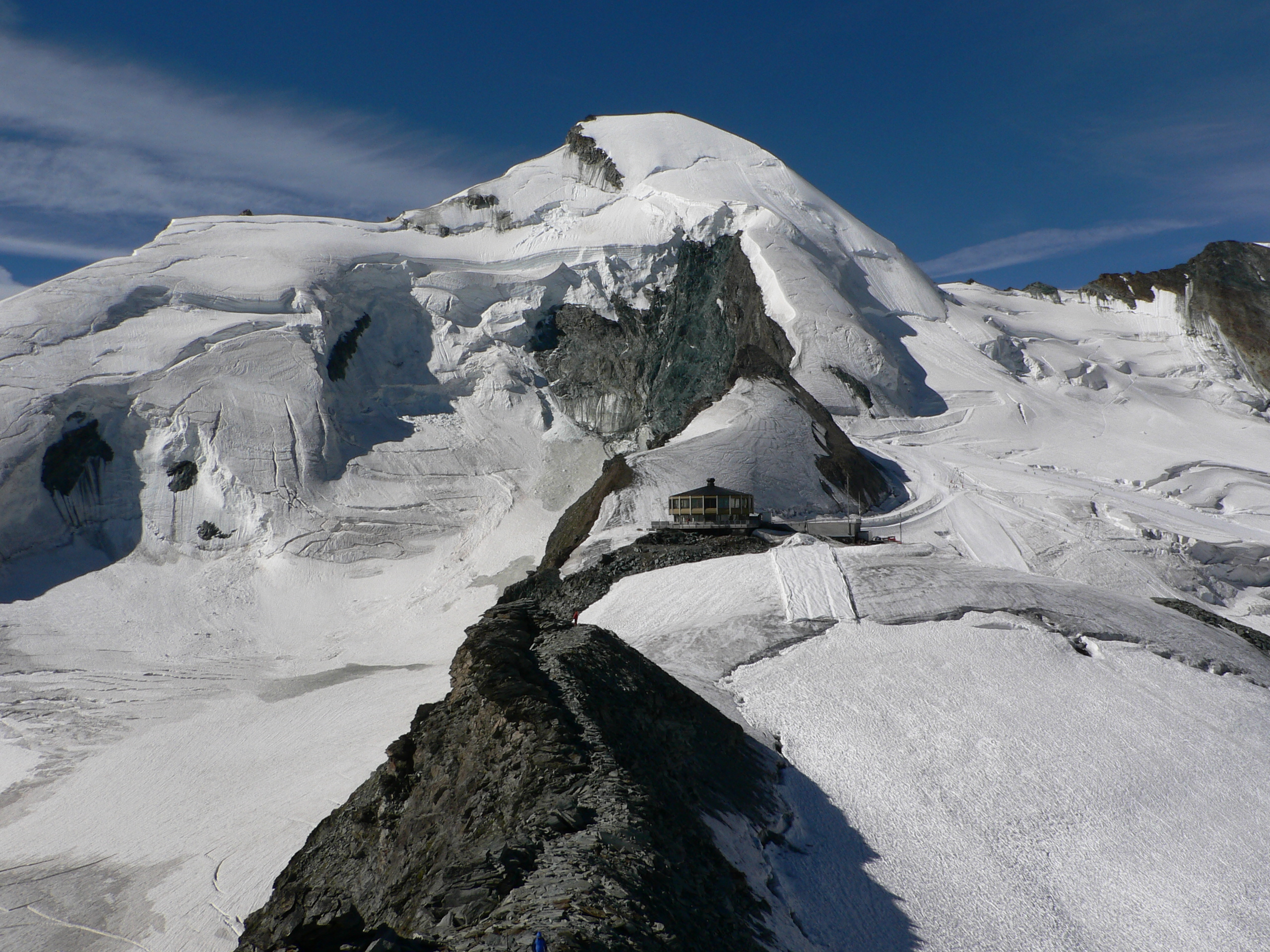 Allalin, a mountain in the Wallis alps in Switzerland